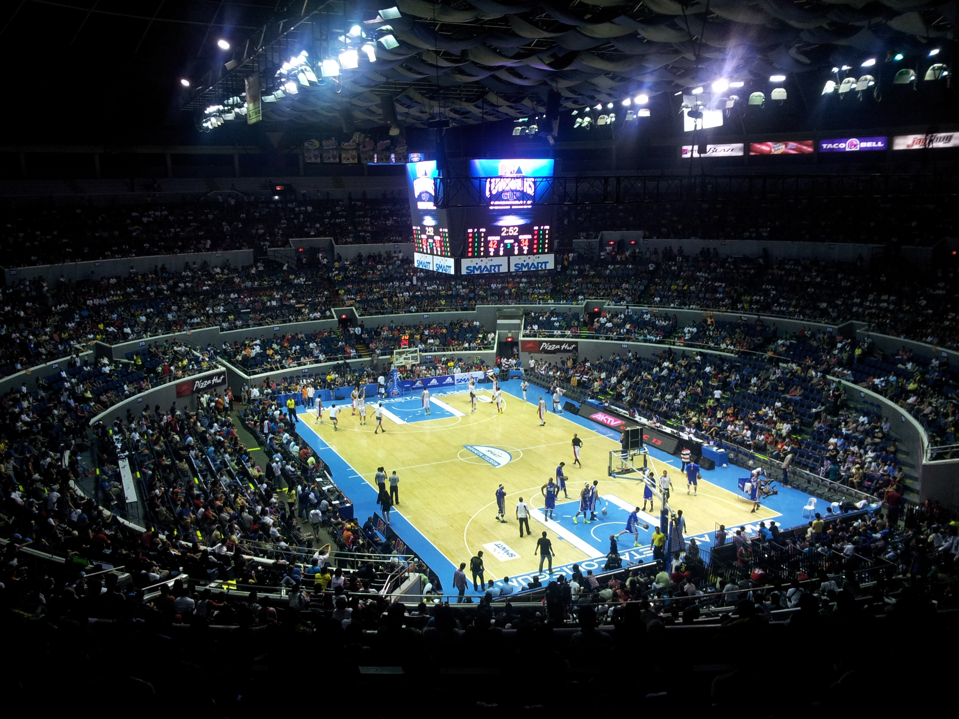 Image of the Smart Araneta Coliseum during the Barangay Ginebra-Petron Blaze semifinal game for the 2012 PBA Governors Cup.